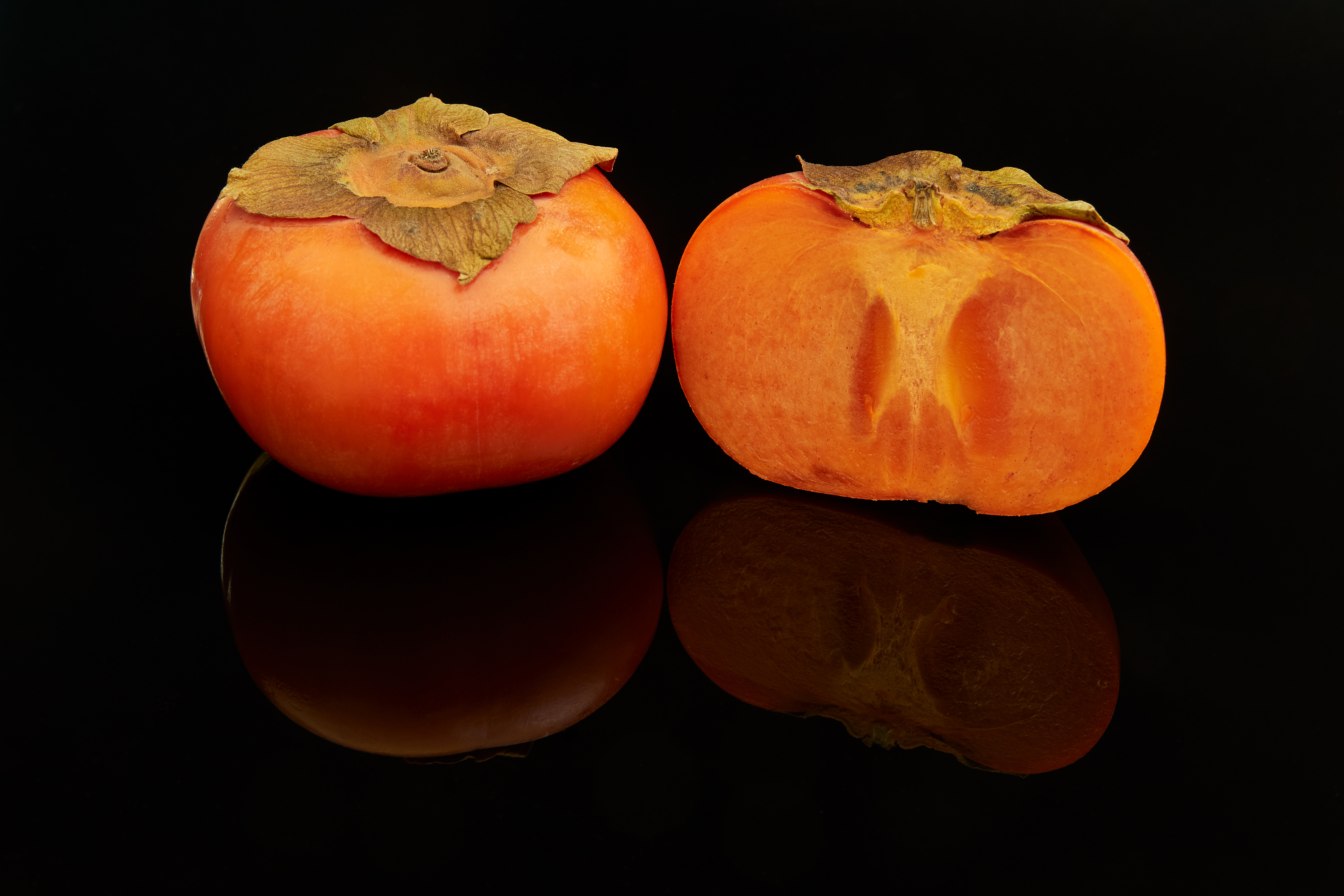 Two fuyu persimmon fruits (Diospyros kaki), one cut in half